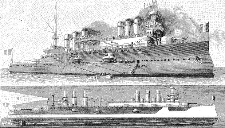 Jeanne d'Arc